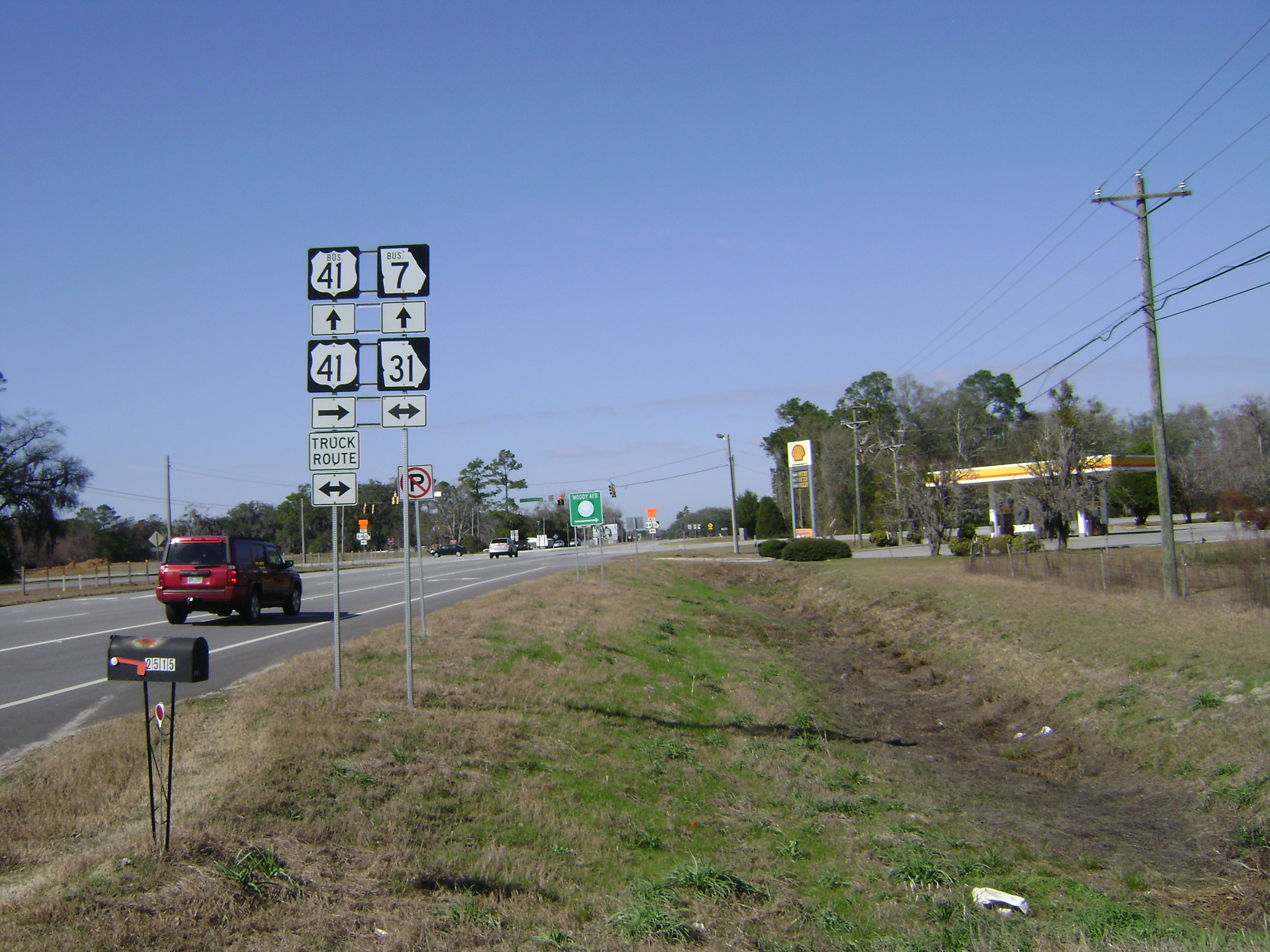 This intersection is the beginning of Hwy 41 Bus/Georgia State Route 7 BUS. Hwy 41 and Georgia State Route 7 turn right at this intersection. Georgia State Route 31 run left and right. Lowndes County, Georgia